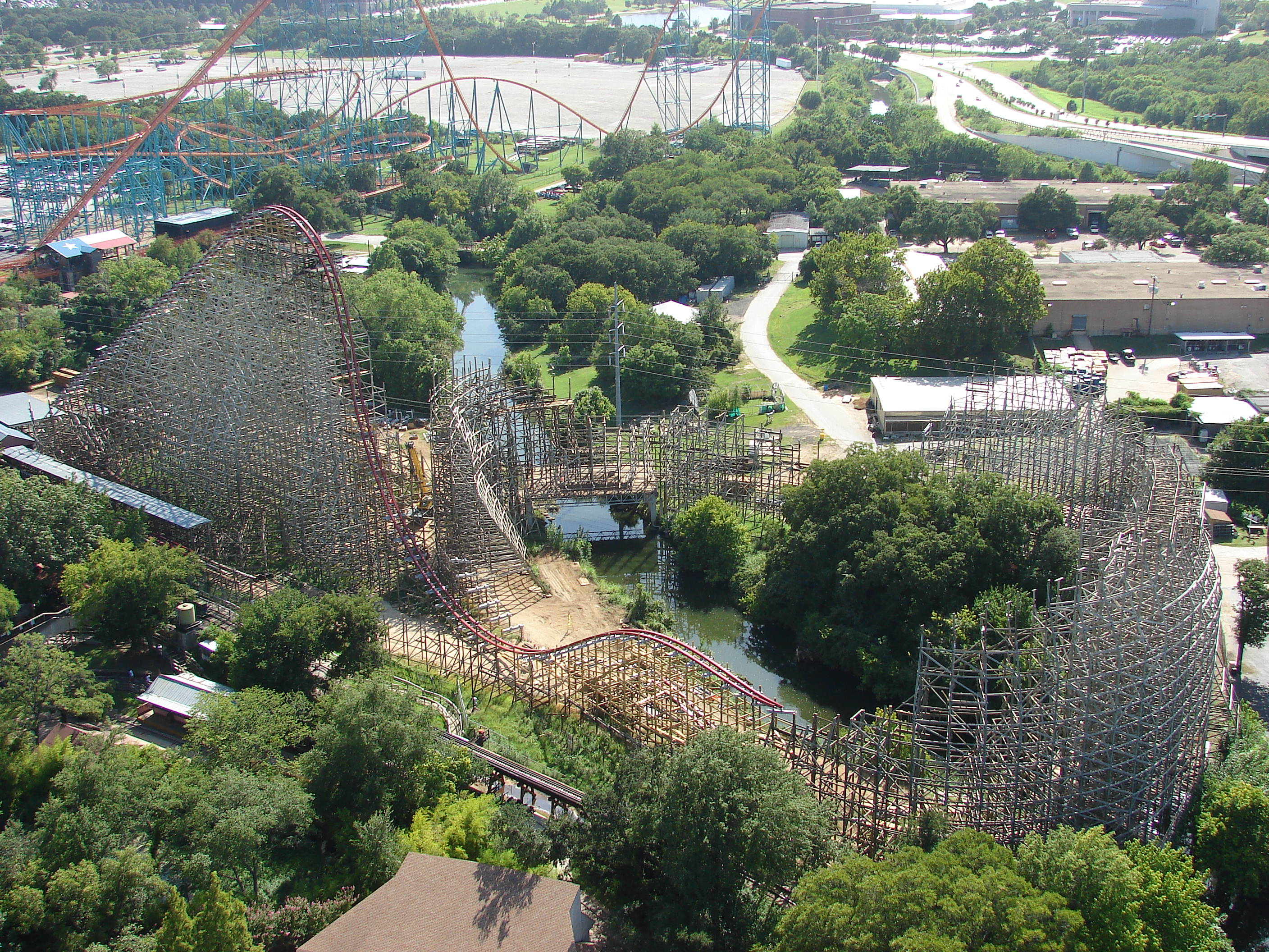 The Texas Giant roller coaster at Six Flags Over Texas being refit for the 2011 season.